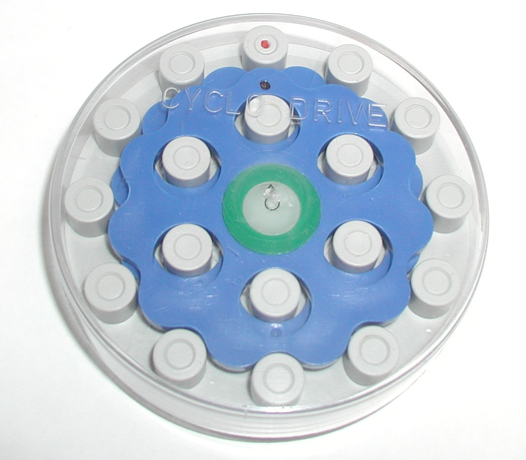 A plastic model of a cycloidal drive mechanism.